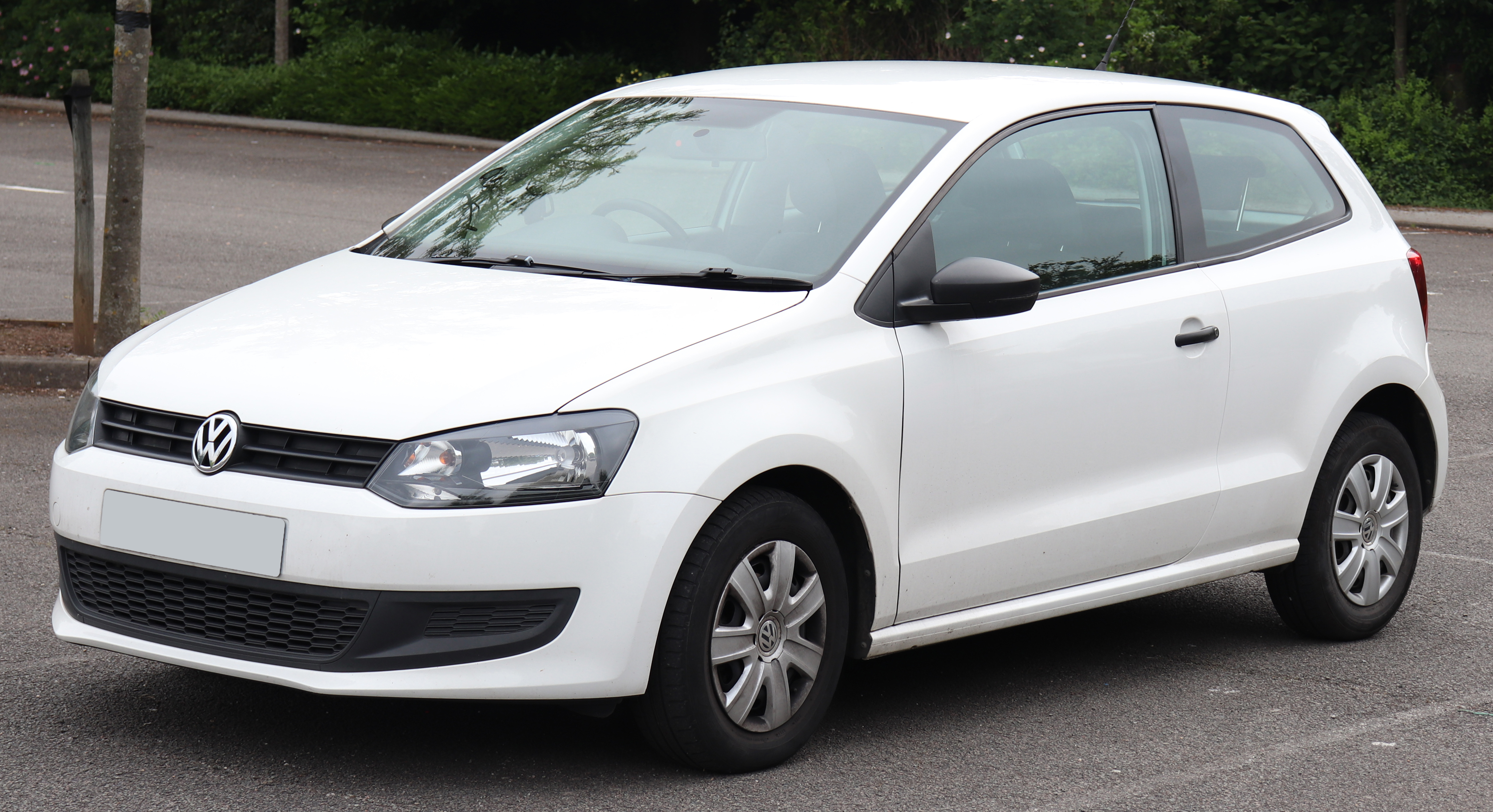 2011 Volkswagen Polo S 60 1.2 Front Taken in Leamington Spa